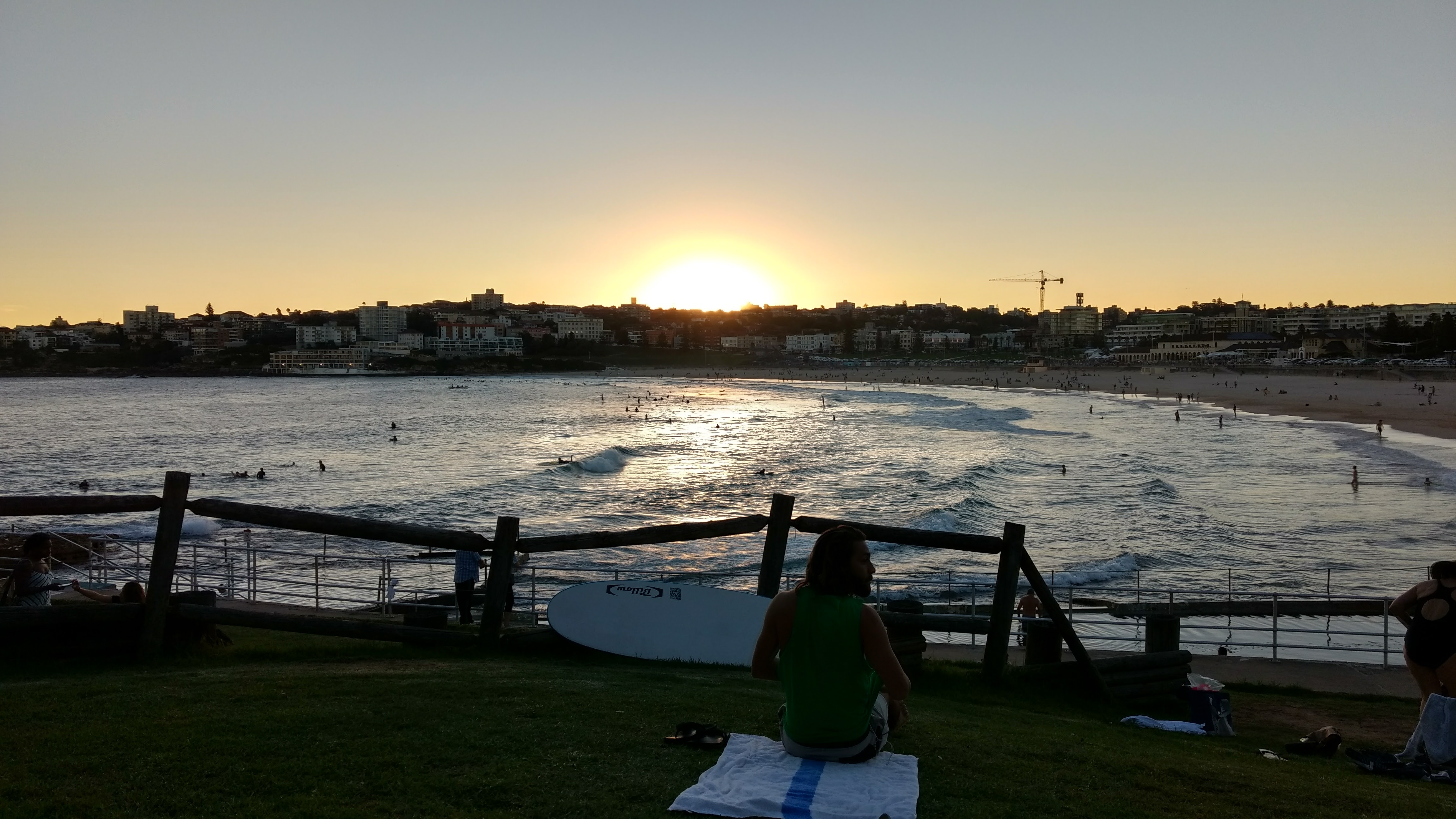 Stunning sunset at Bondi Beach.